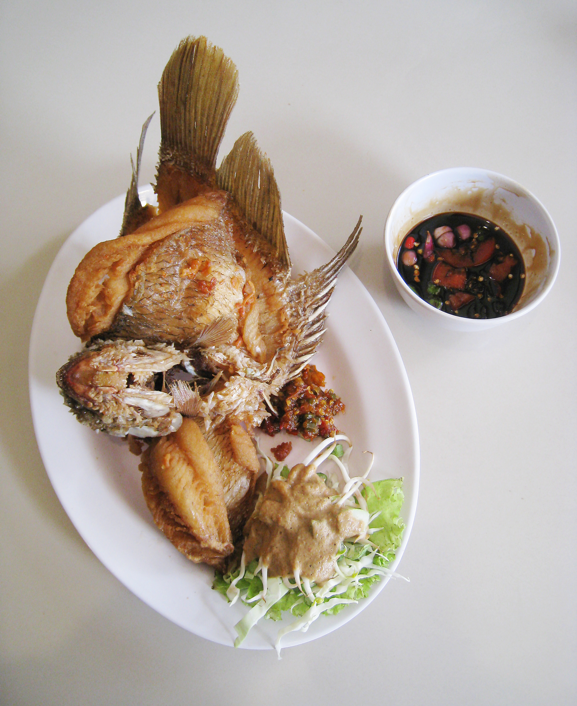 Gurame Goreng Kipas or "Fried Gourami Fan", ikan goreng or fried fish of gourami arranged in fan-shape. Served with karedok vegetables, sambal terasi and sambal kecap. Served in a restaurant in Jakarta, Sundanese cuisine, Indonesia.